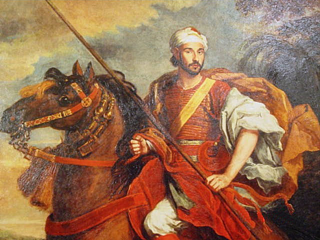 Ambassador_Ben_Hadou_1682